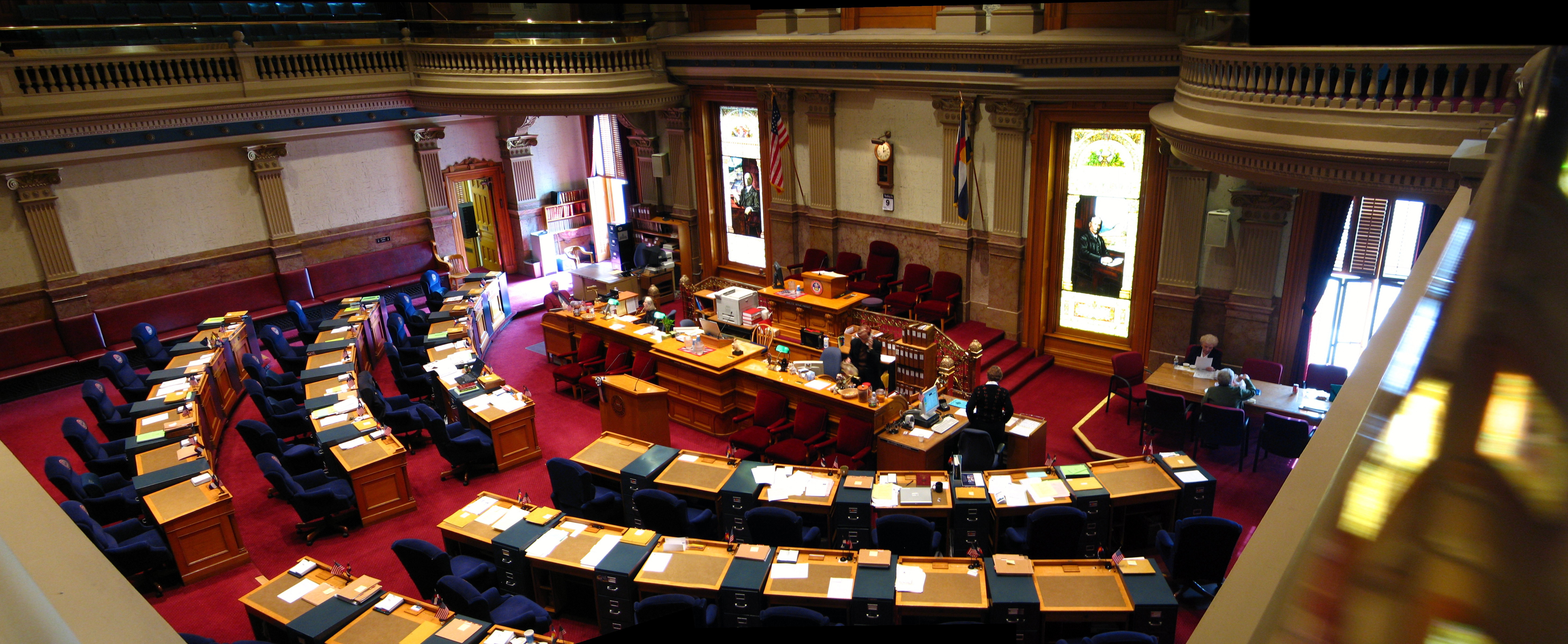 Senate Chamber, Colorado State Capitol Building, Denver, Colorado, USA